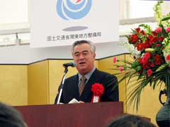 Masaru Hashimoto, Governor of Ibaraki Prefecture, addressed the Opening Ceremony of Tsukuba - Tsukubaushiku, Ken-Ō Expressway at Tsukubaushiku Interchange in Tsukuba City, Ibaraki Prefecture on March 29, 2003.